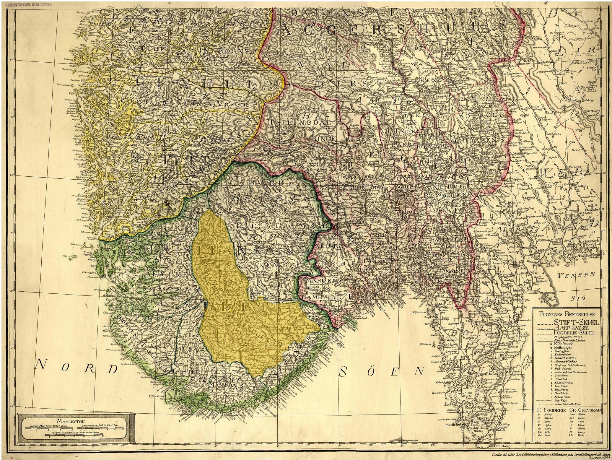 Raabygdelagets fogderi. Made from Pontoppidans map from 1785